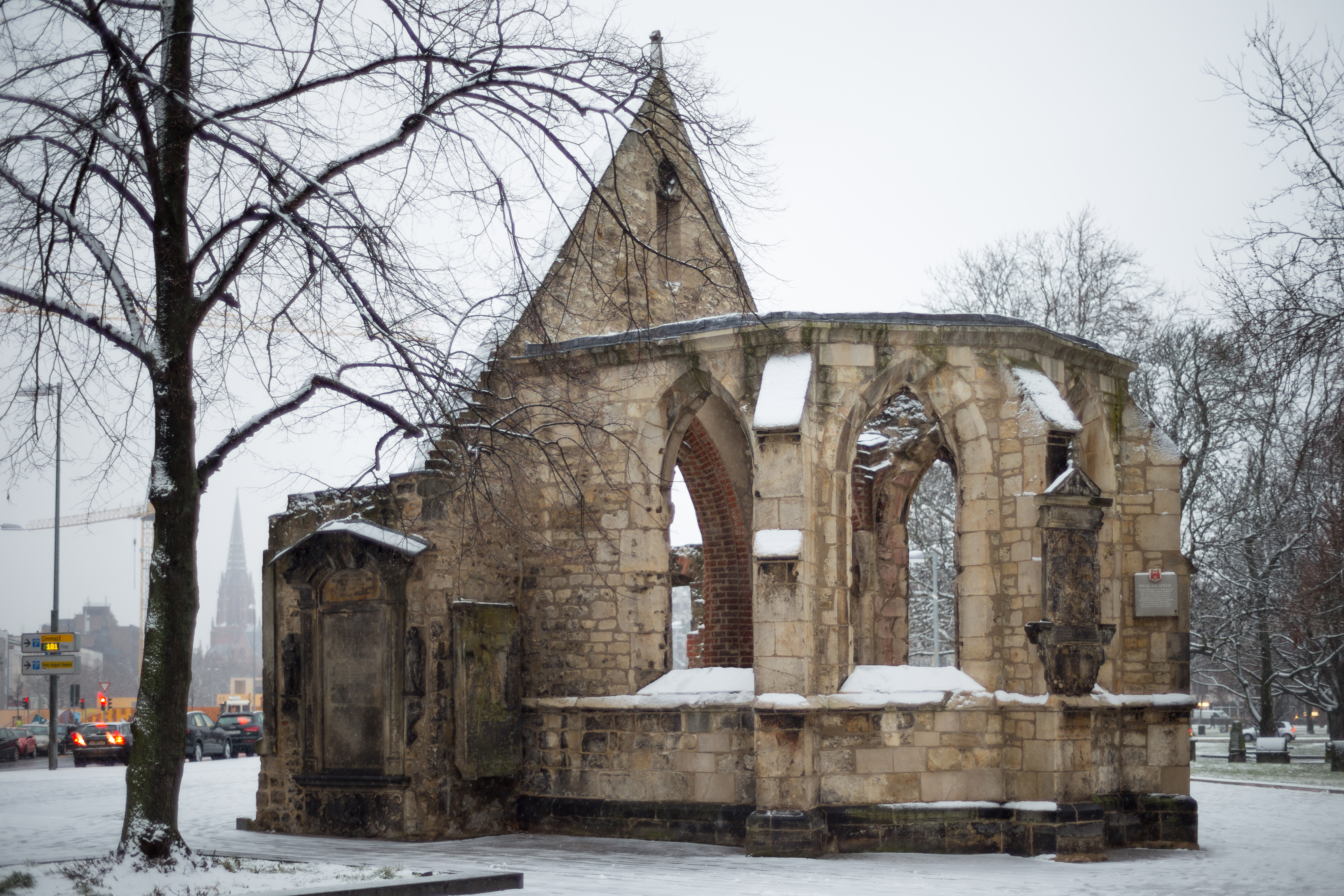 Nikolai chapel at Goseriede road in Mitte district of Hannover, Germany.